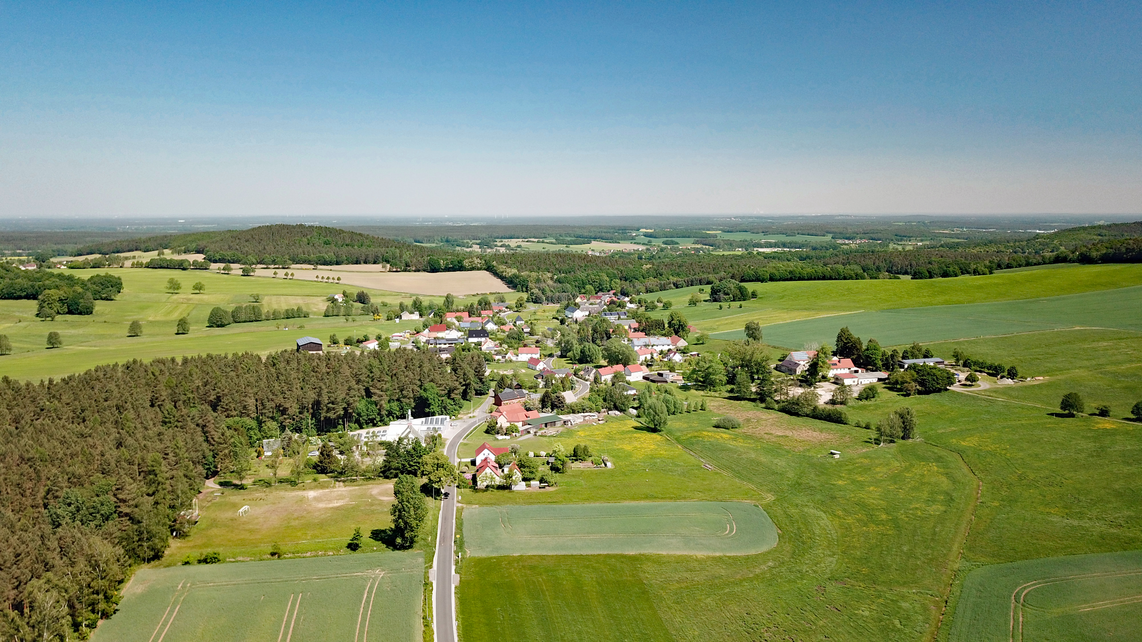 Schwosdorf (Schönteichen, Saxony, Germany)